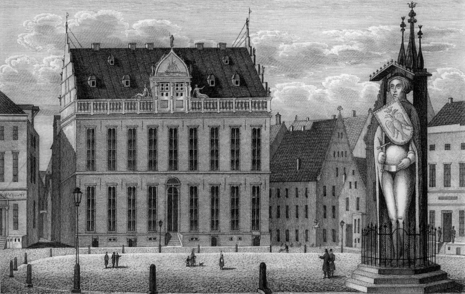 Steel engraving from the year 1833 by C. Ermer according to a drawing by Stephan Messerer, showing a 19th century view on the Bremen Roland (statue of Roland) and the Schütting (the merchant guild headquarters) at the market square of Bremen.